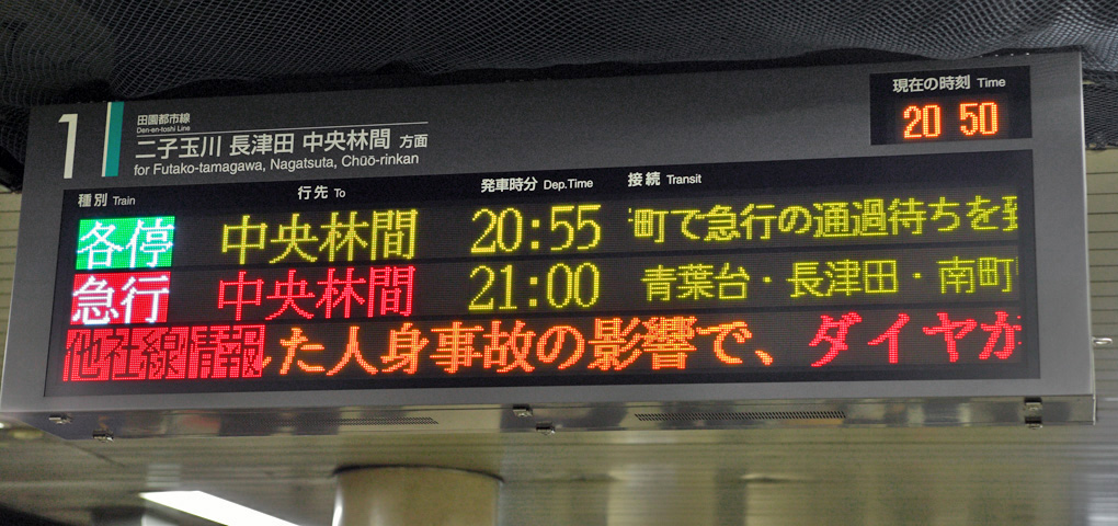 An Information board of Shibuya Station Tōkyū Den-en-toshi Line